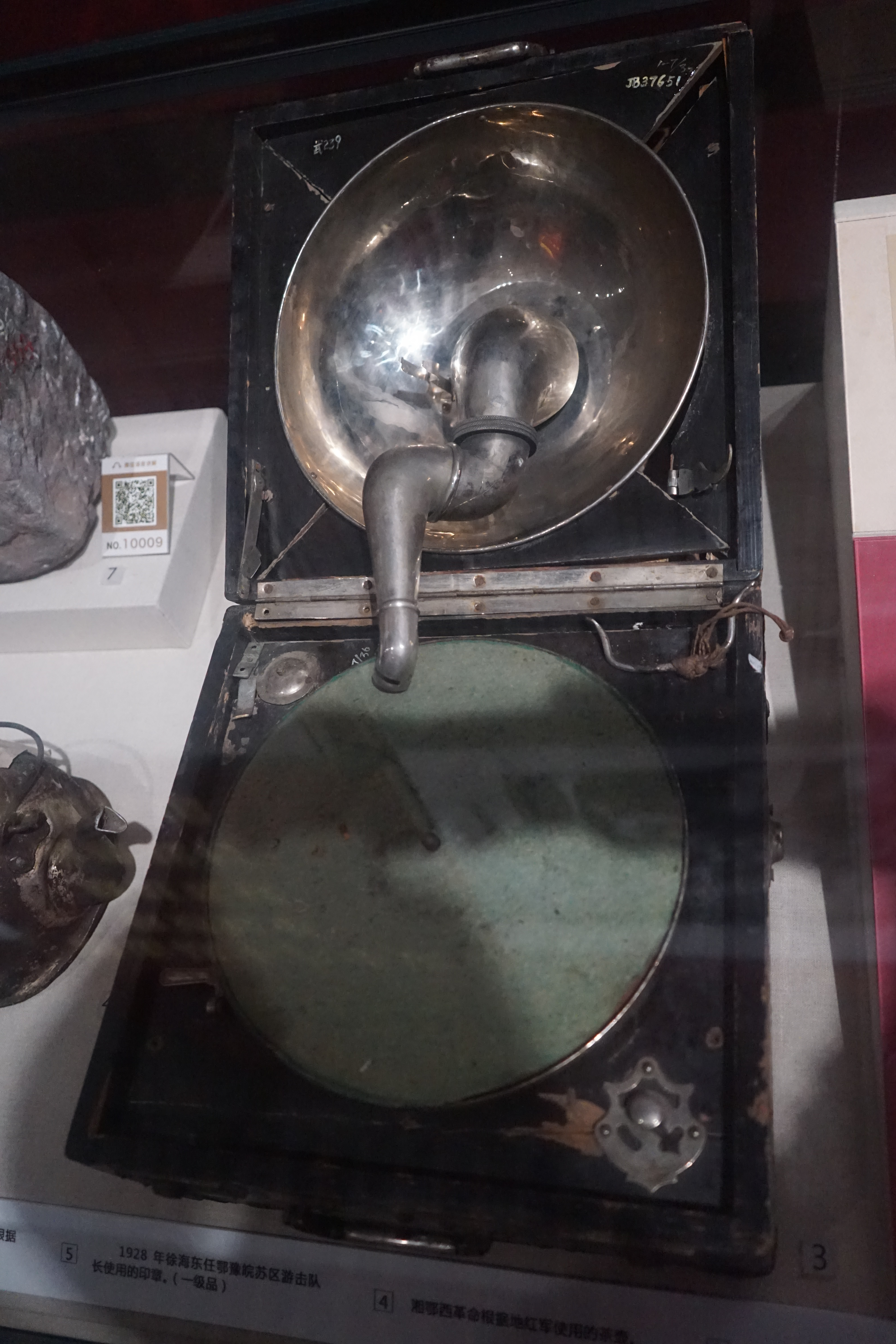 Phonograph used by Red Army at Hunan-Hubei-Jiangxi Revolutionary Base Area. First Grade Cultural Relic.